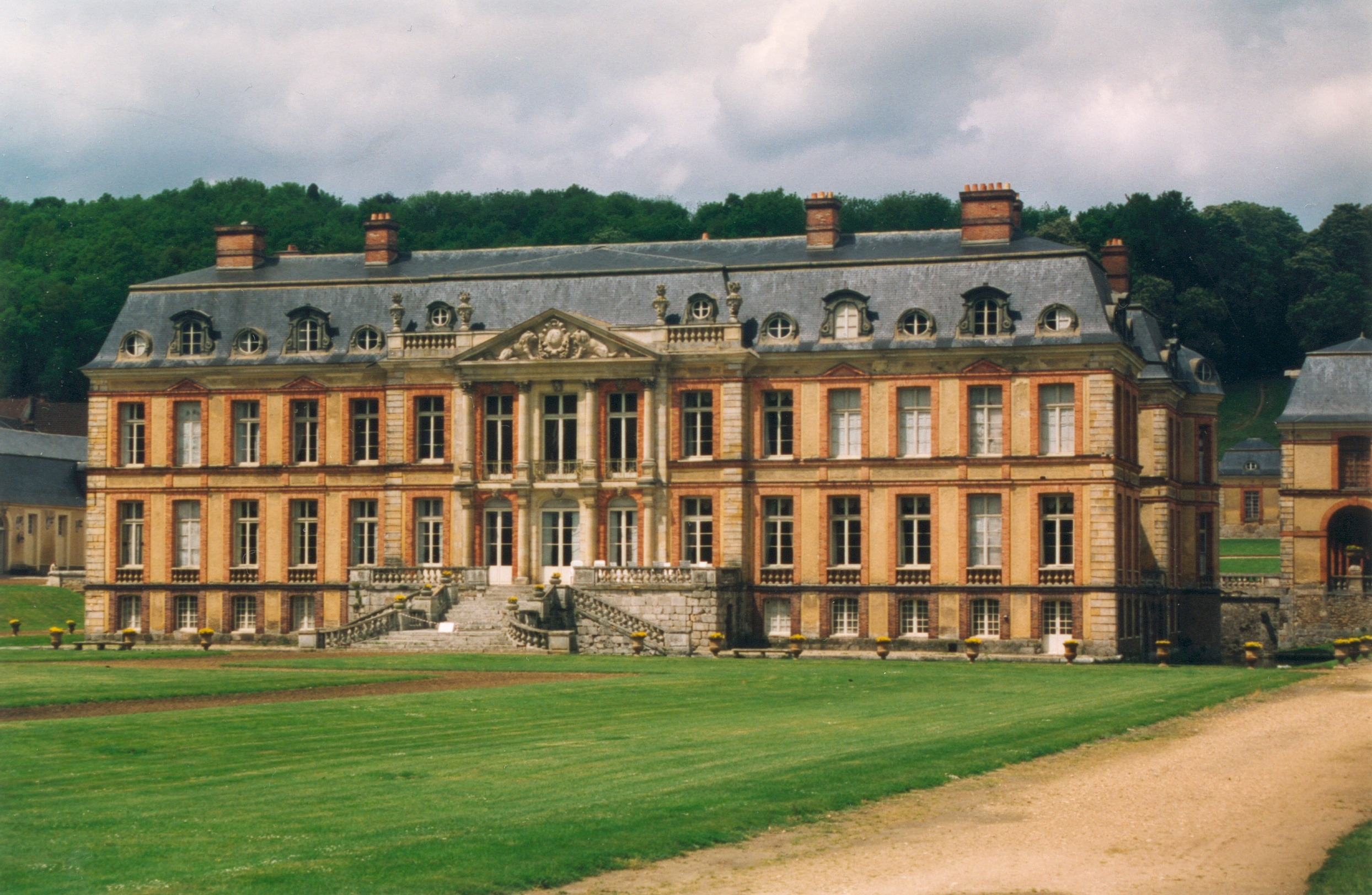 The Château de Dampierre, Dampierre-en-Yvelines, France, garden facade